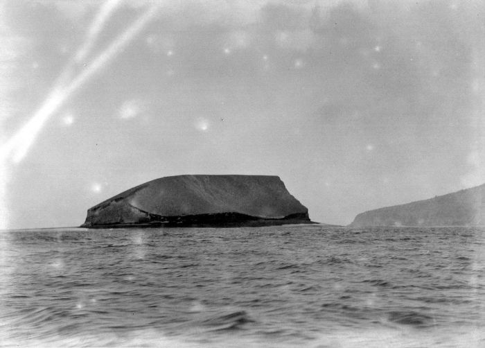 The Anak Krakatau